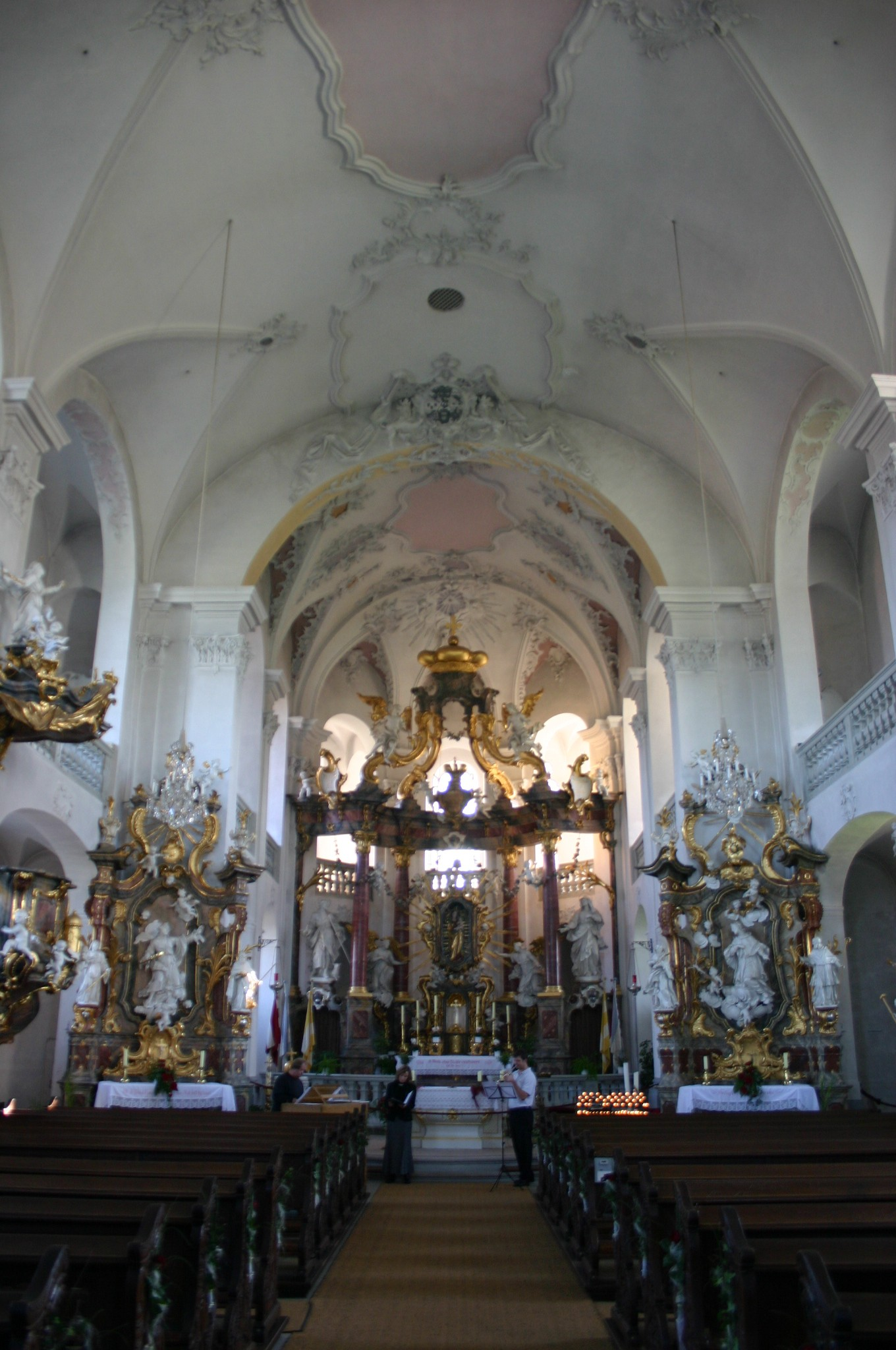 Limbach (Eltmann municipality), interior view of Parish Church and Sanctuary of the Visitation facing south.